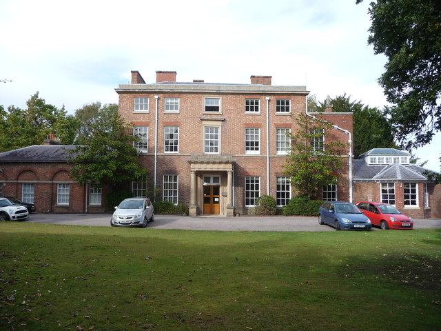 Darwin's birthplace; The Mount, Shrewsbury